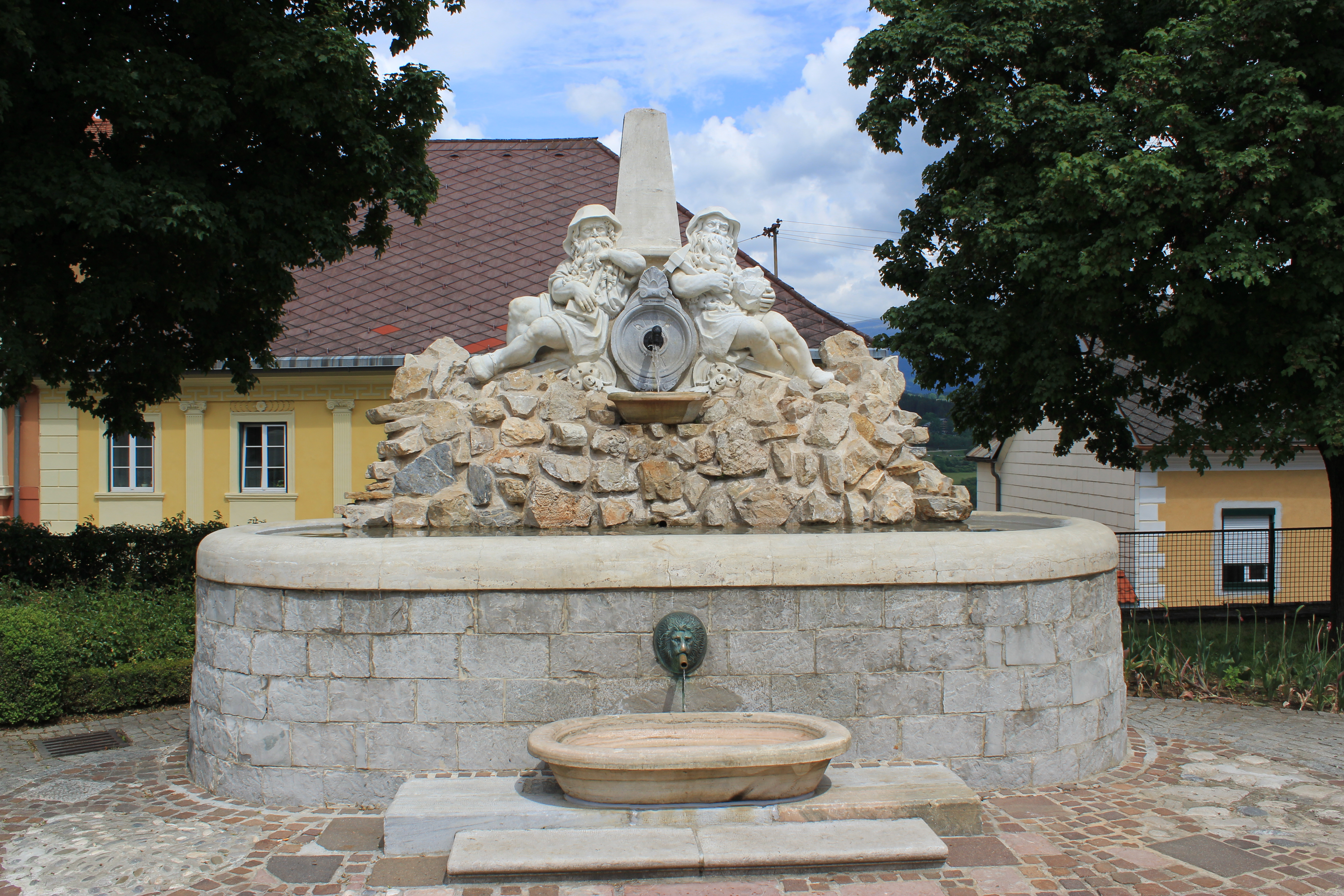 Dwarf-fountain in Althofen